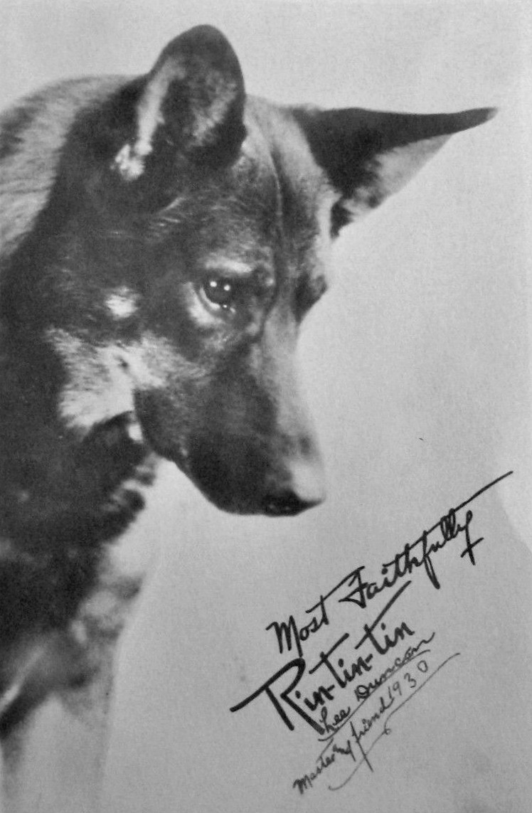 Promotional photo of Rin-Tin-Tin. The photo is dated 1930 and signed by his owner. This was a promotional photo for a dog food company.